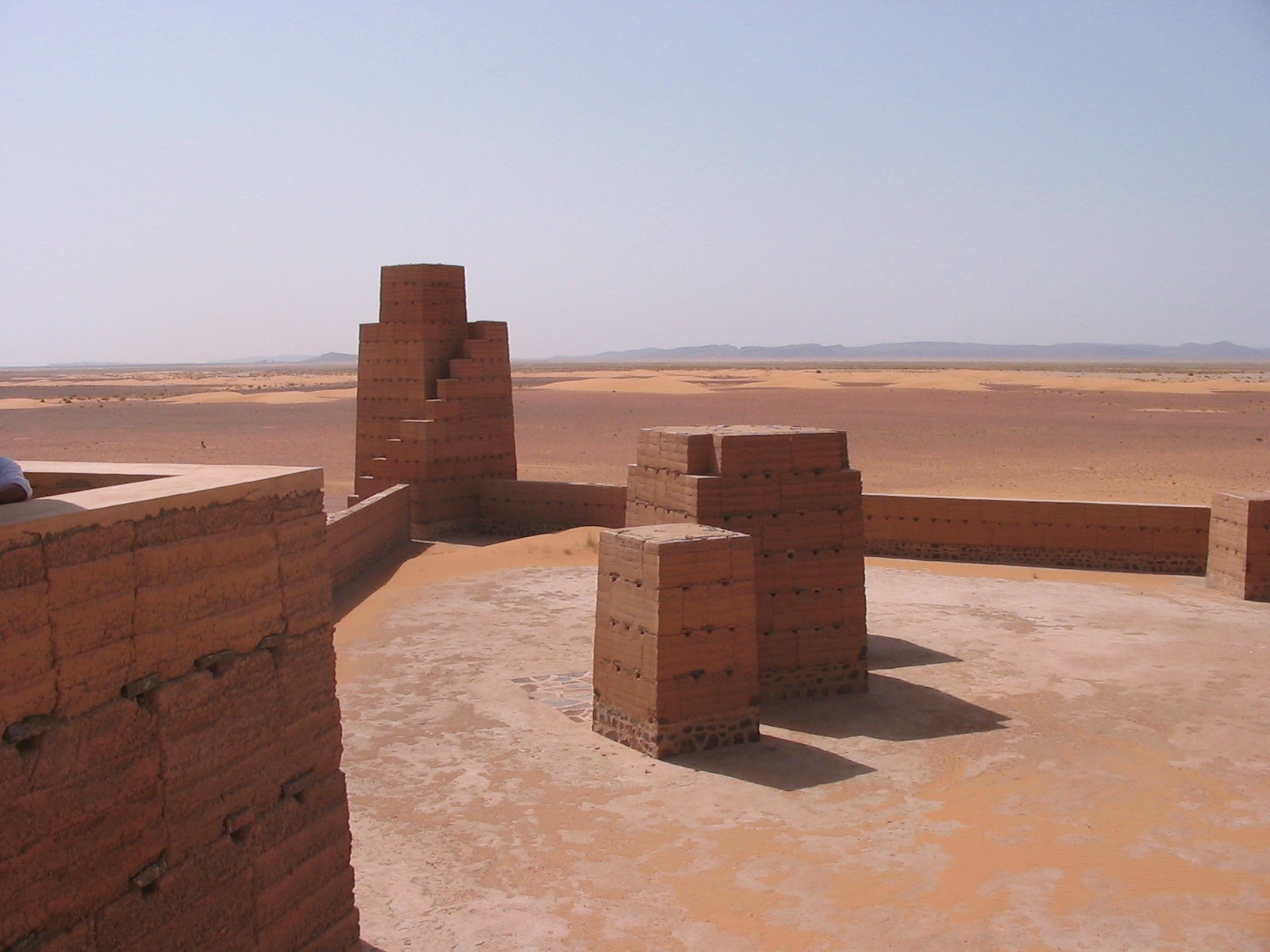 Land Art by German artist Hannsjörg Voth near Rissani, Morocco